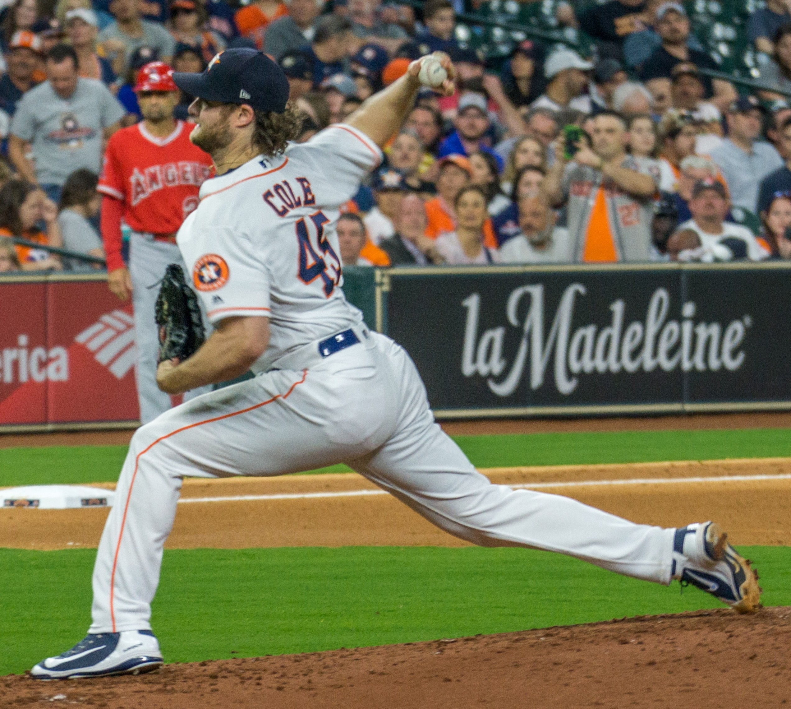 Astros vs Angels